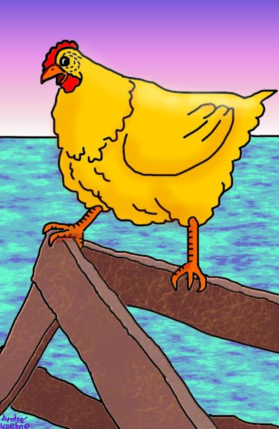 I don't do art for a living, neither for personal nor professional propaganda. I don't make any drawings for money. Thanks.